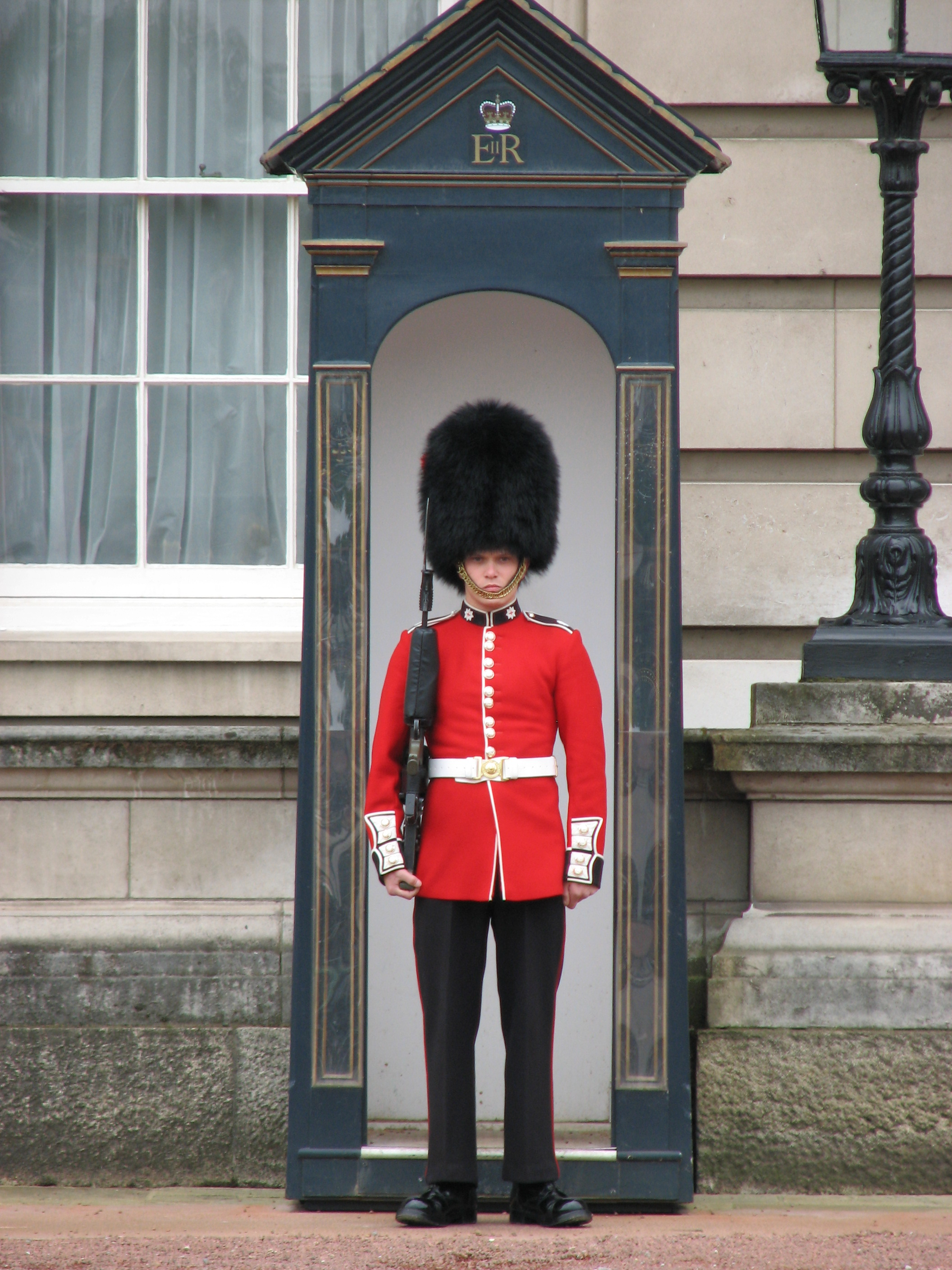 Buckingham guard